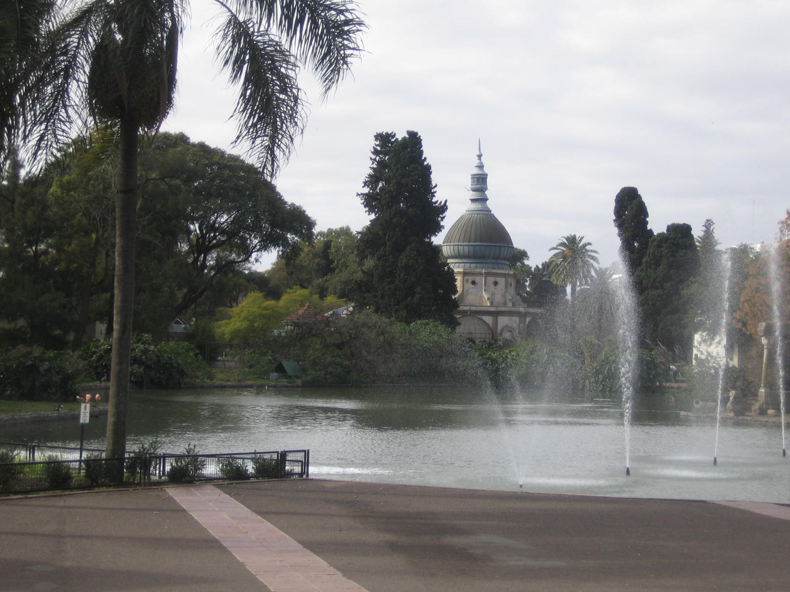 Agosto 2008